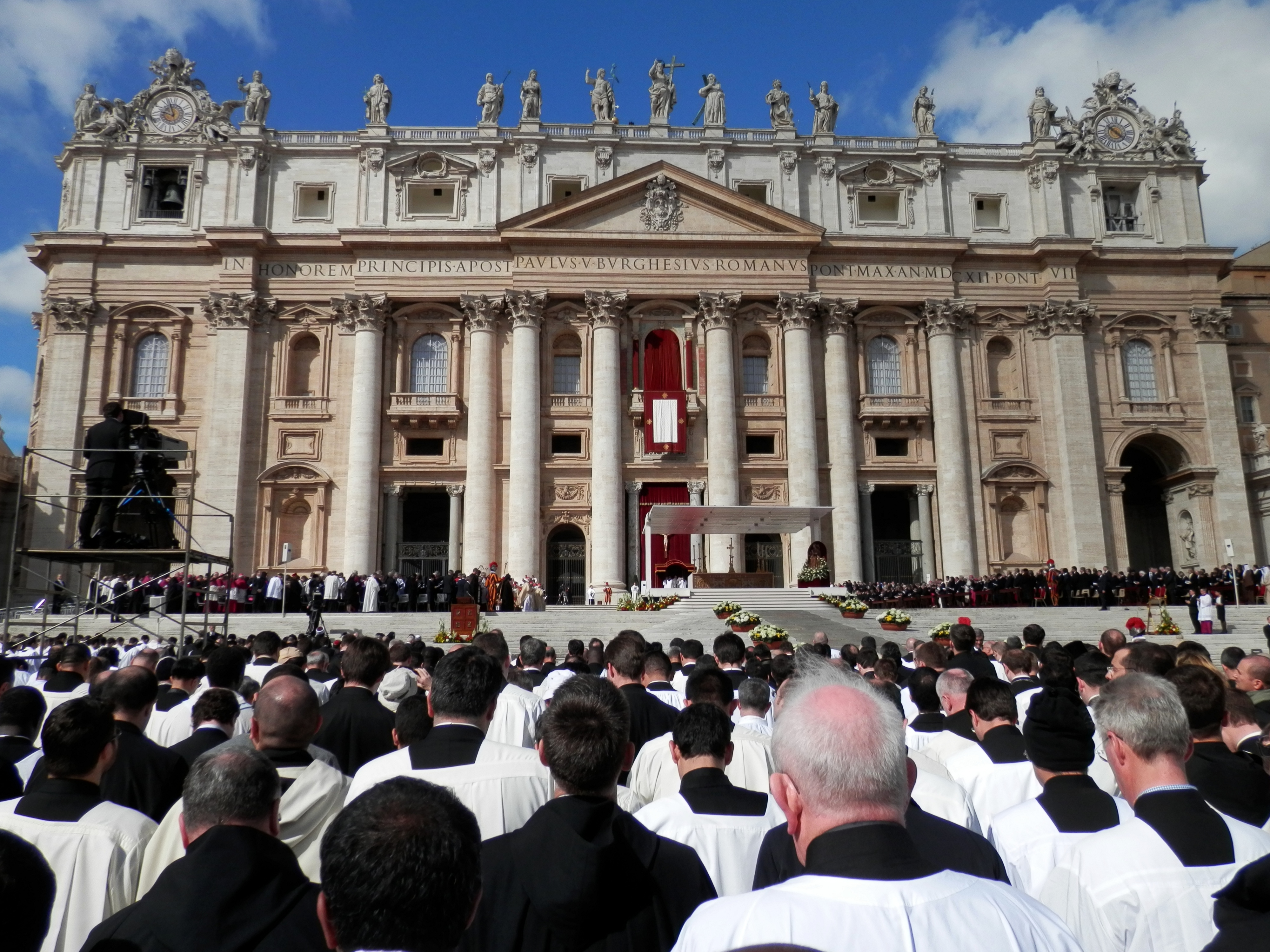 Inauguration of Pope's Francis Ministry, 19 March 2013